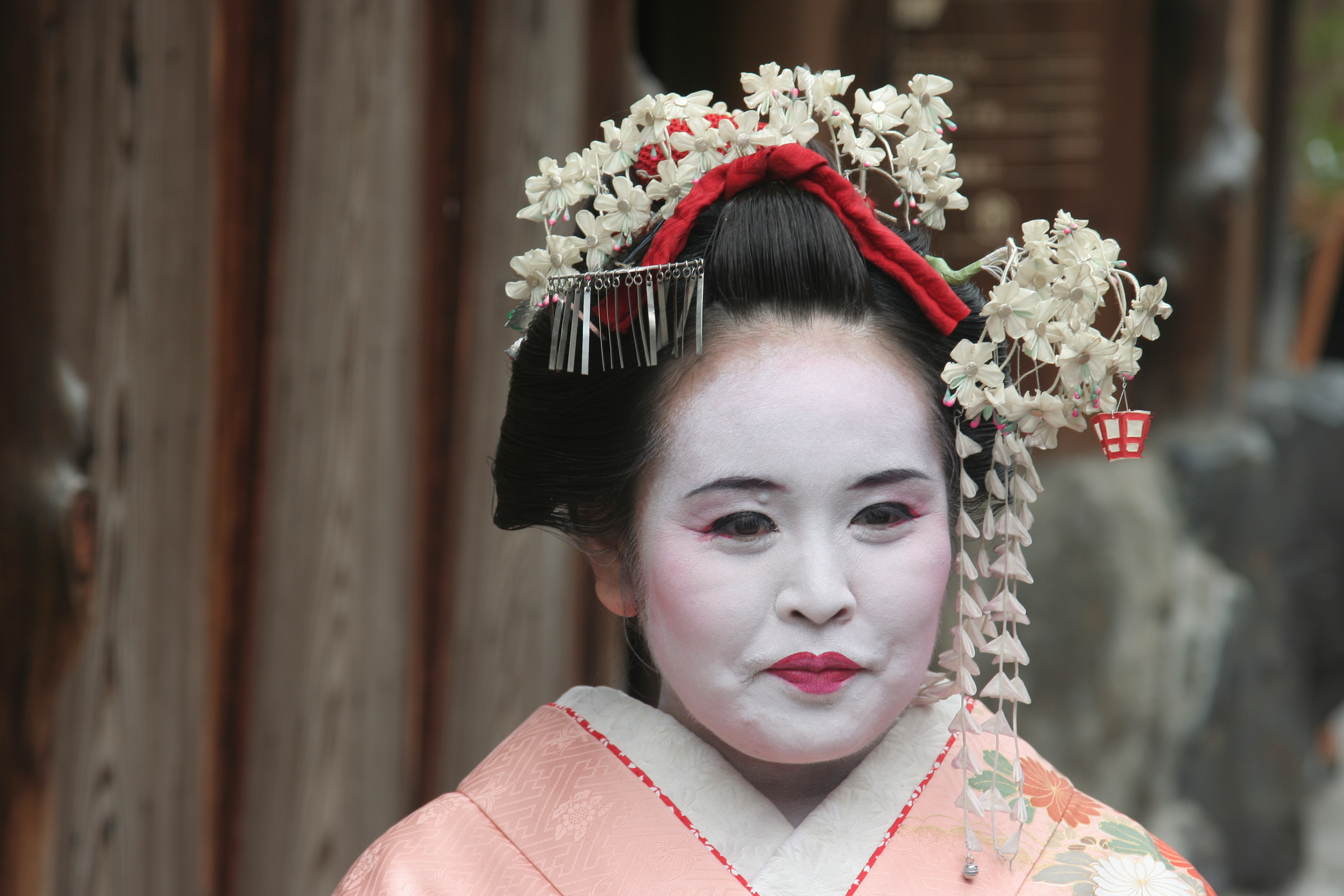 A tourist dressed up as a fake maiko (2009)